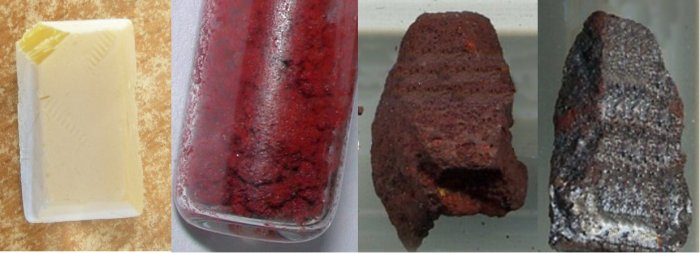 Waxy white (yellow cut), red (granules centre left, chunk centre right), and violet phosphorus.